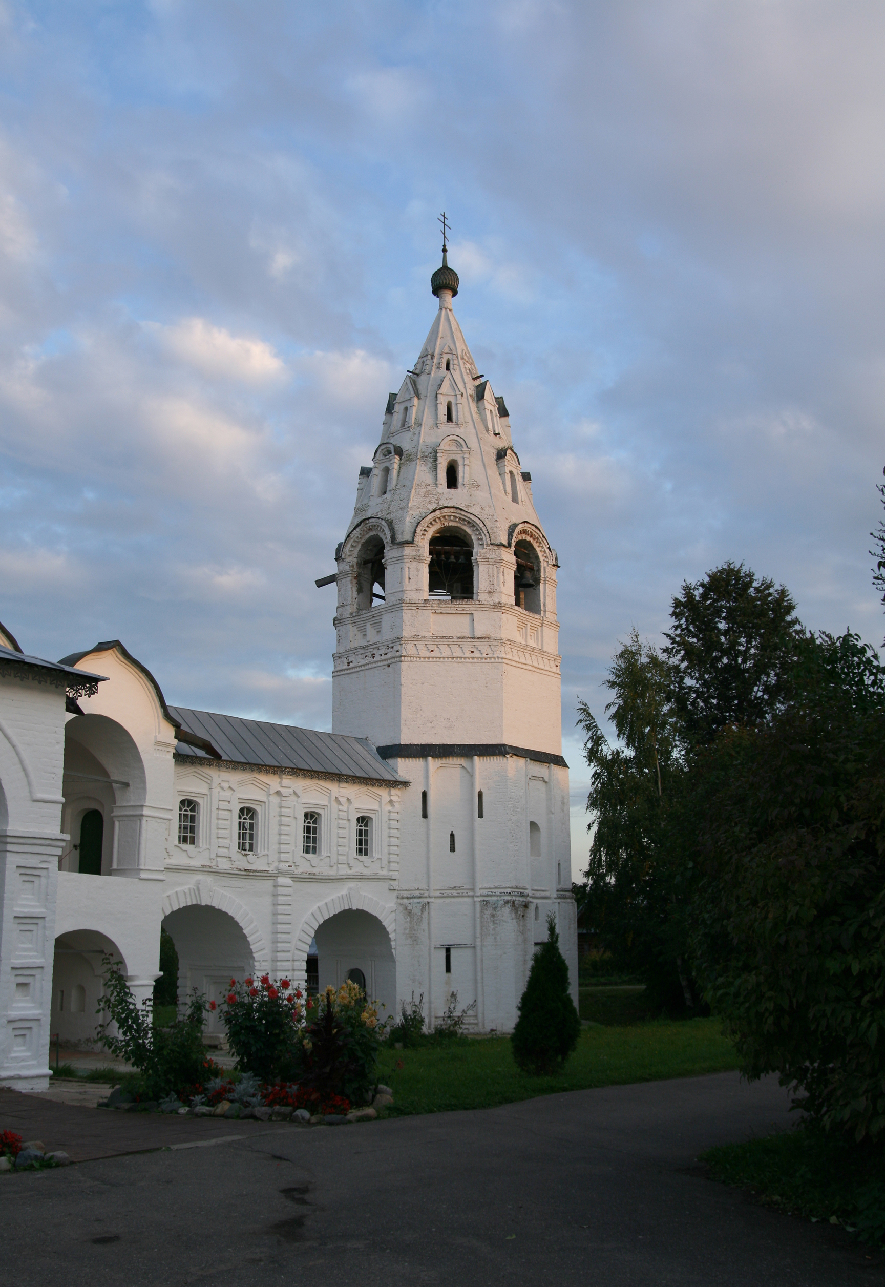 The Bell Tower at Pokrovsky Monastery (Suzdal), XVI-XVII c